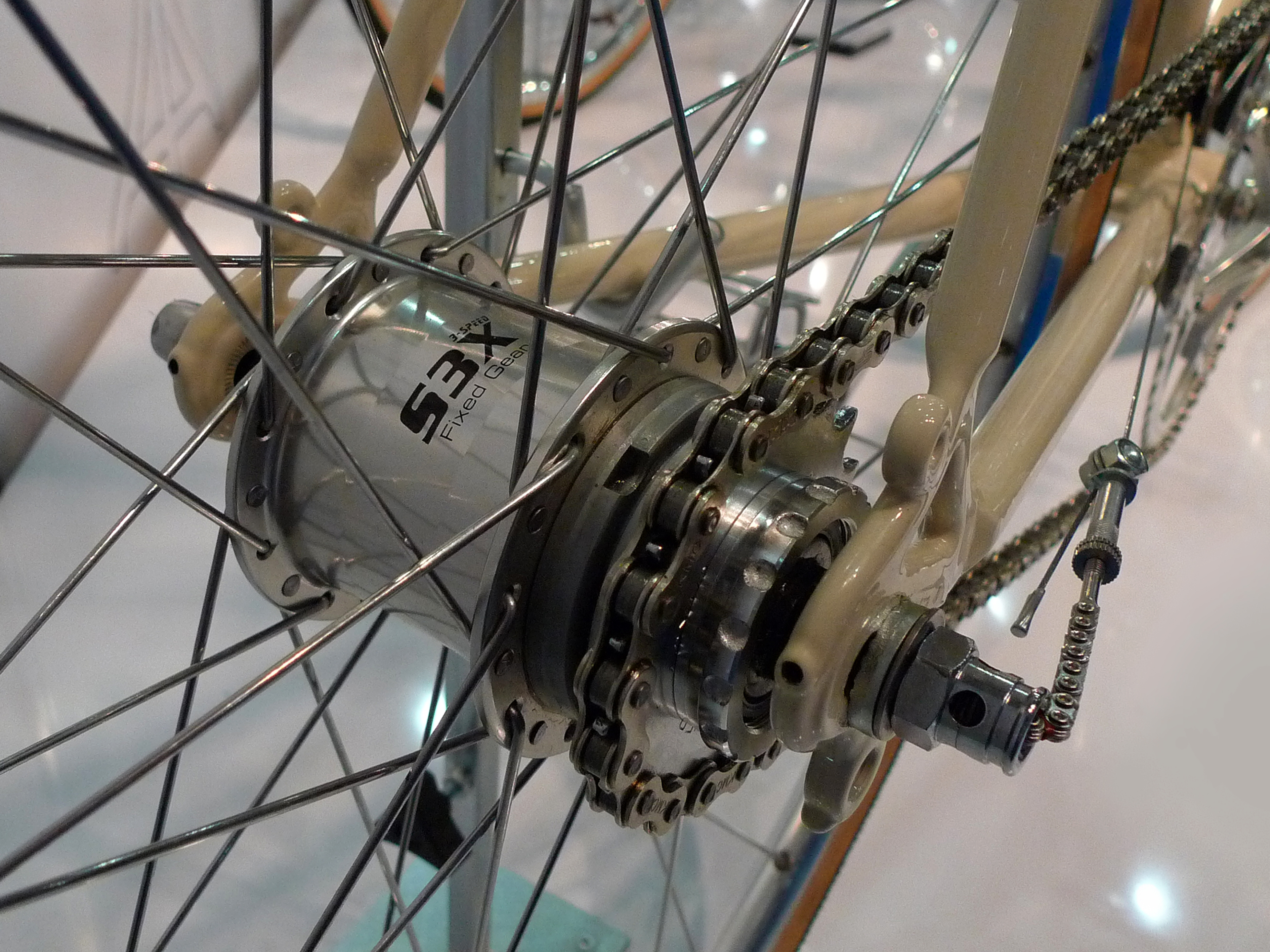 SX3 on a Pashley Clubman prototype